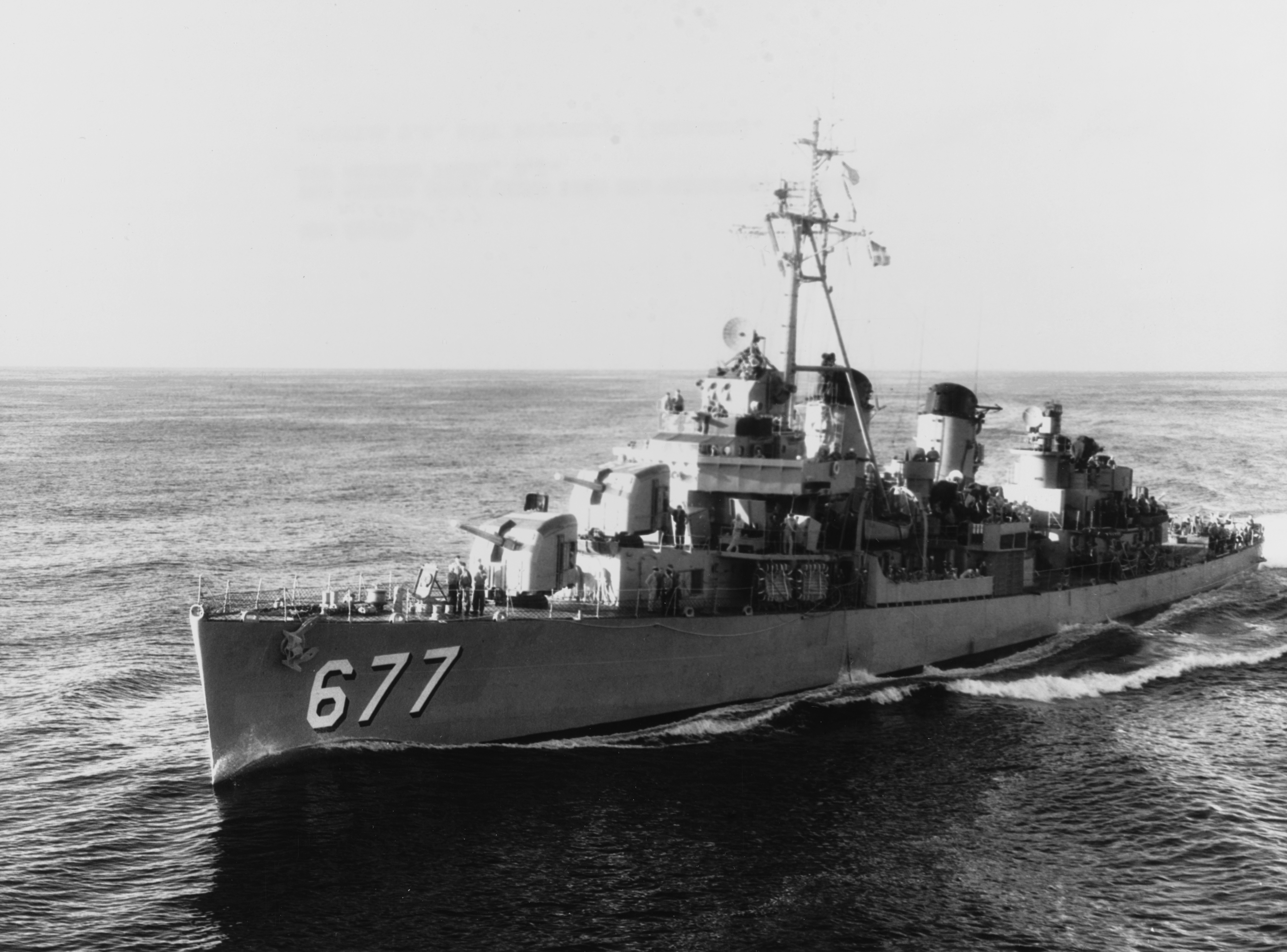 The U.S. Navy destroyer USS McDermut (DD-677) underway at sea off Quonset Point, Rhode Island (USA), circa the mid-1950s. The photo was taken from the aircraft carrier USS Bennington (CVA-20).